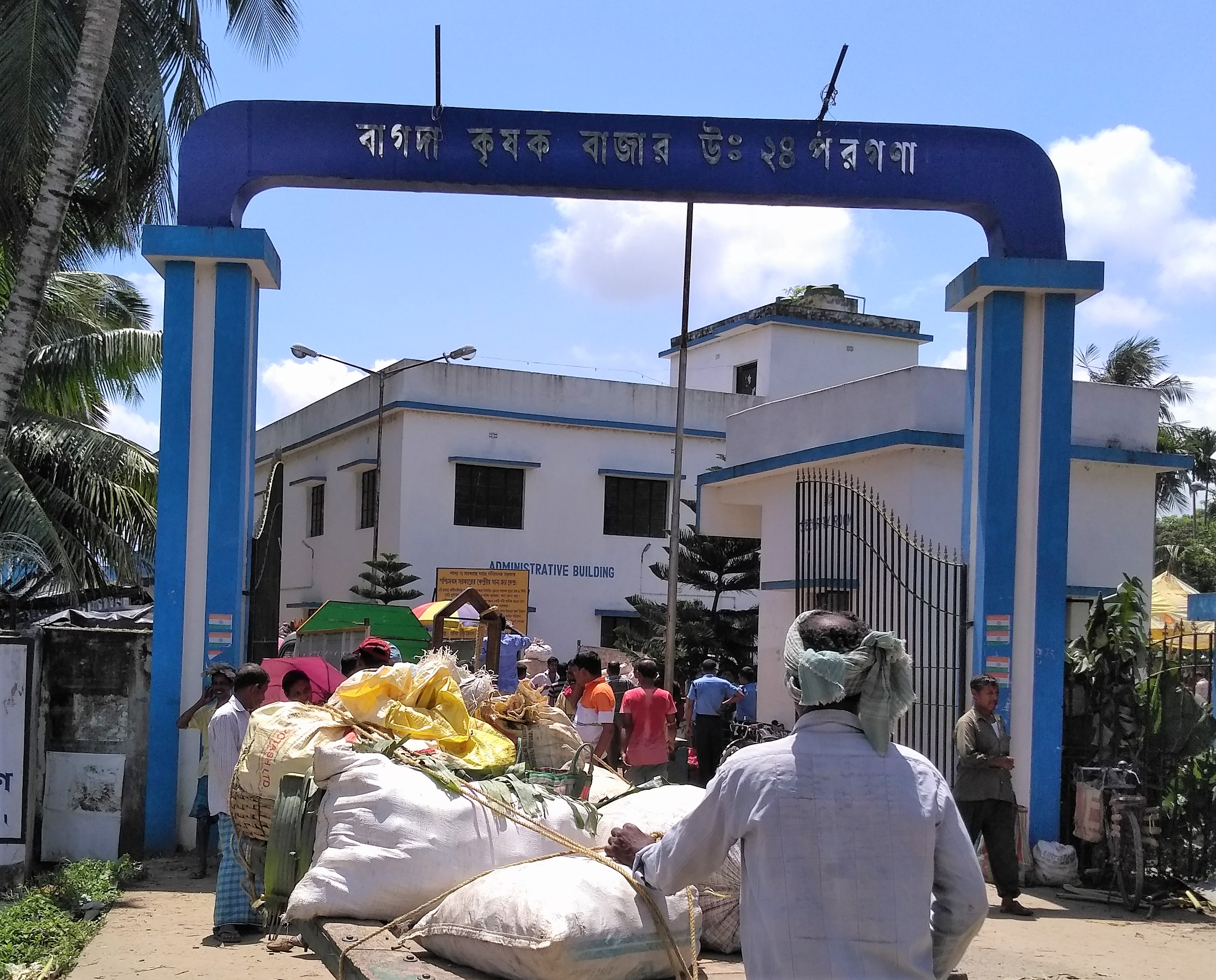 Bagdah agricutural firm entry gate